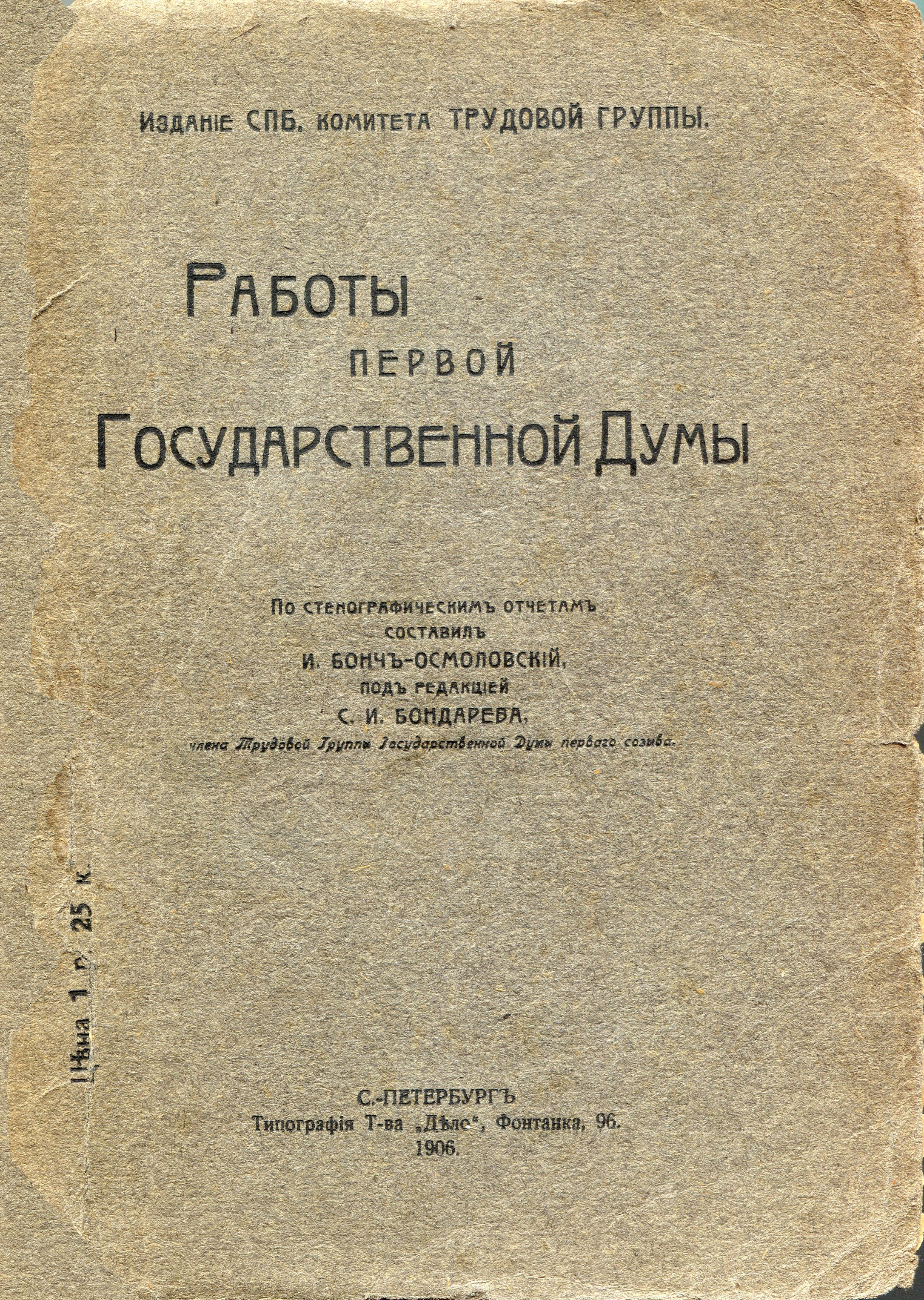 Paper back of collection of the speeches of members of the First Russian State Duma